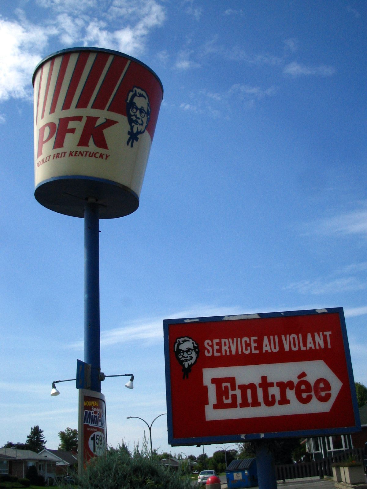 A PFK (Québécois name of KFC) drive-through in Laval, Québec.